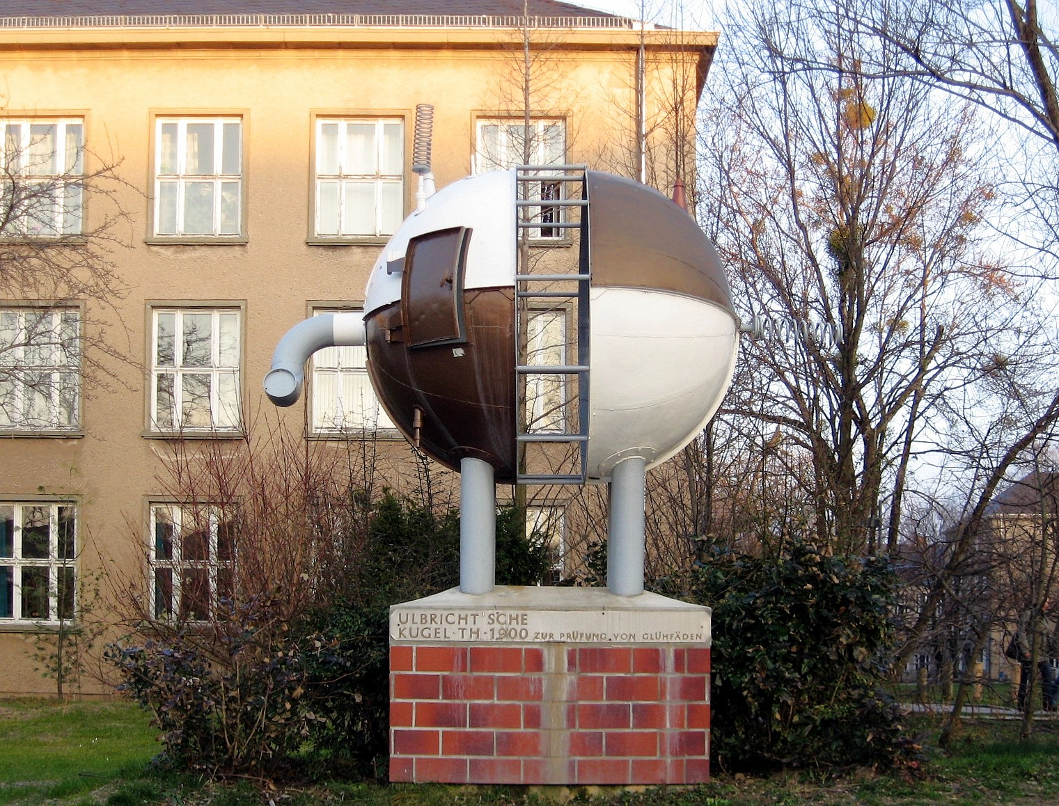 Artwork „Ulbrichtsche Kugel“ („Integrating sphere“) by Jürgen Schieferdecker from 1984, on the campus of the Technical University of Dresden